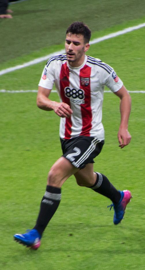 Maxime Colin, Brentford FC footballer, Stamford Bridge, London, January 2017.